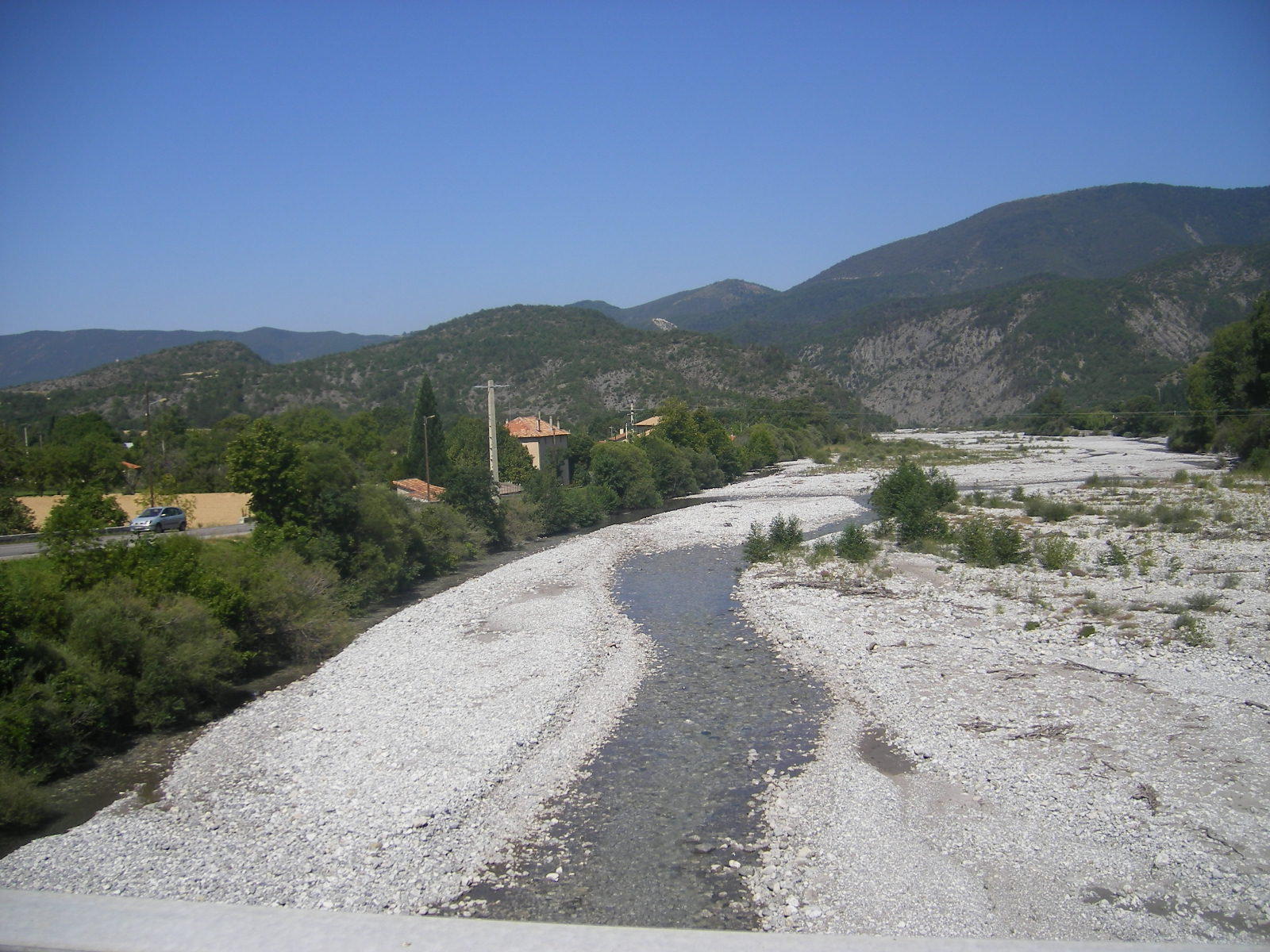 The Bléone near La Javie (where the D900 route crossing)